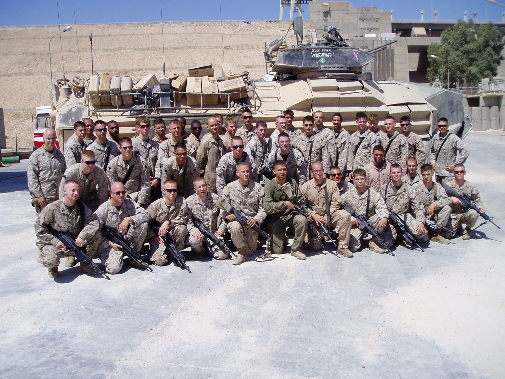 This is a group photo of 1st platoon with our section of trackers (the guys who operate the AAVs that is behind us). We pretty much had the same guys for the whole 7 months and developed a great relationship with them.1st Platoon & Trackers